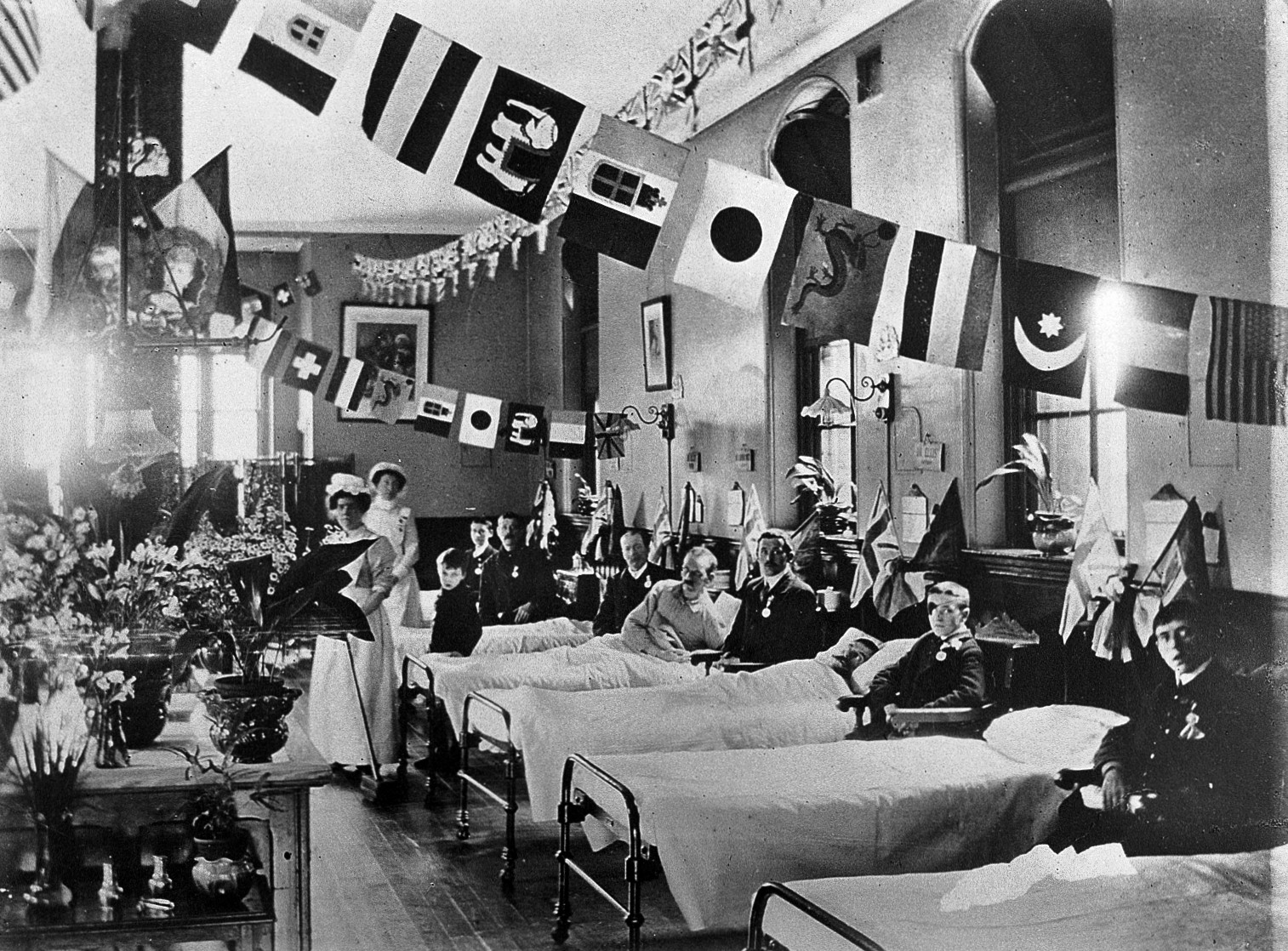 Hahnemann Hospital and Homœopathic Dispensaries, Liverpool: a ward, decorated with flags possibly for the coronation of King George V. Photograph. Iconographic Collections Keywords: Homeopathy; Hospitals; Hahnemann Hospital and Homœopathic Dispensaries (Liverpool)